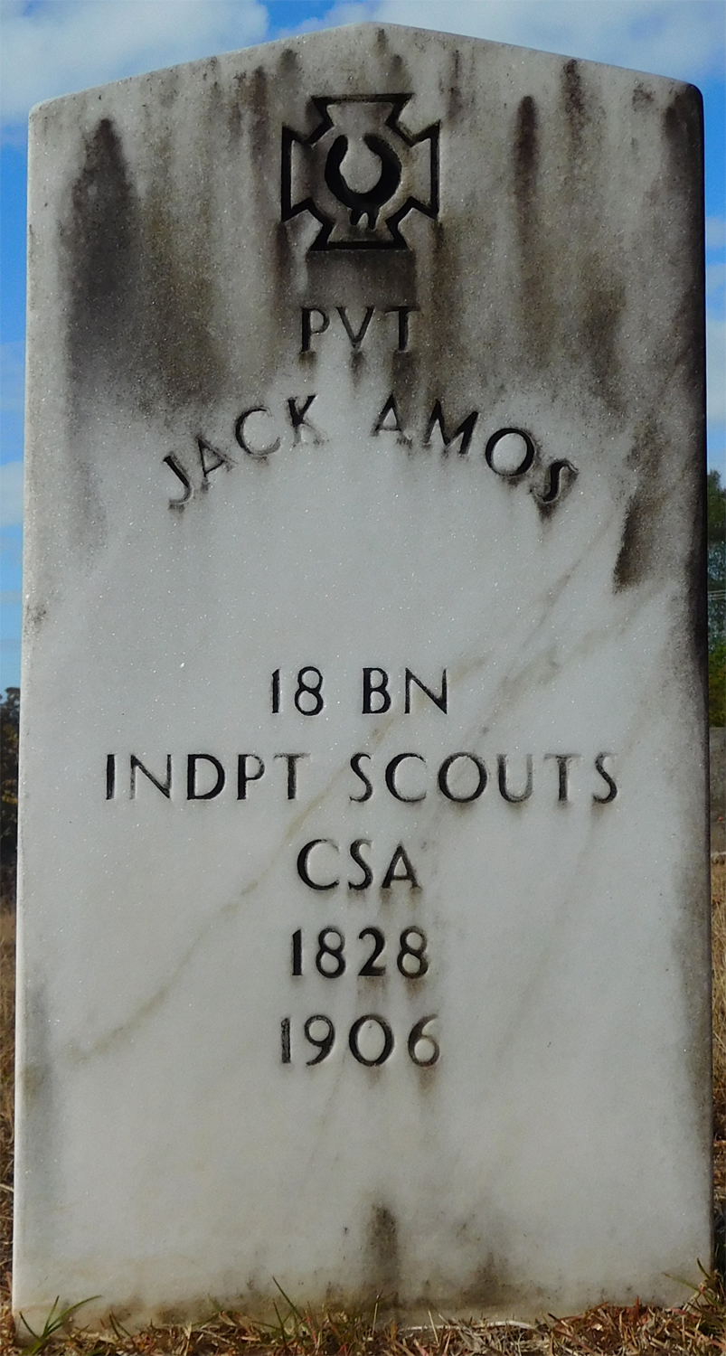 Jack Amos' VA Memorial marker at the Blue Springs Baptist Church Cemetery found a few miles north of Chunky, Mississippi. Amos exact burial location is lost. His Indian name was Eahantatubbee or "He Who Goes Out And Kills."